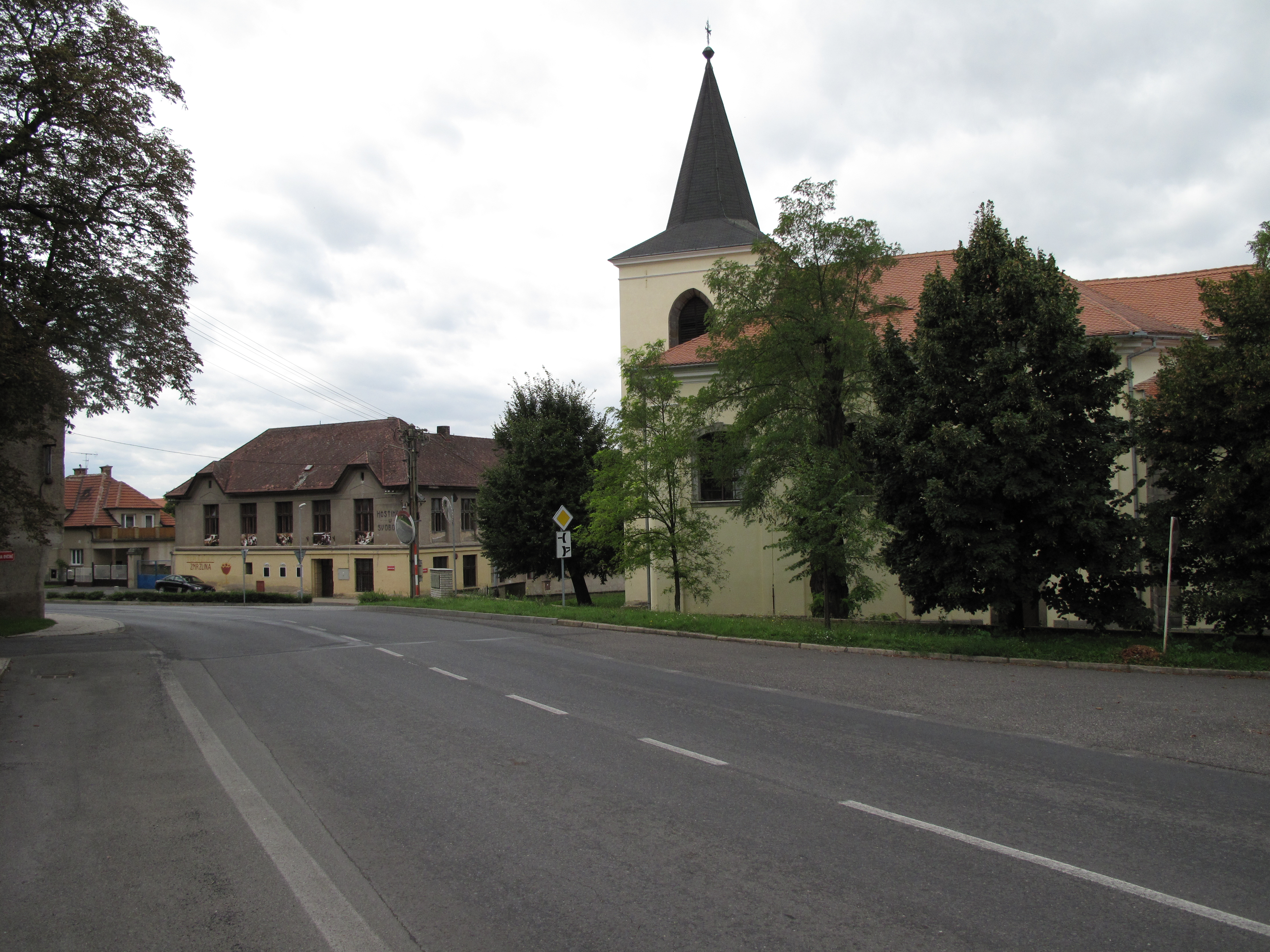 Road no. II/247 and the Church of the Assumption in Chotěšov village, Litoměřice District, Czech Republic.